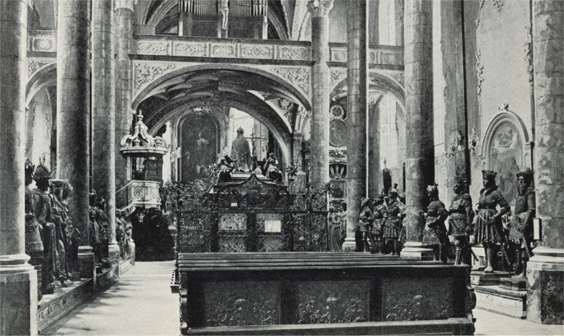 inside view of the Hofkirche in Innsbruck around 1898